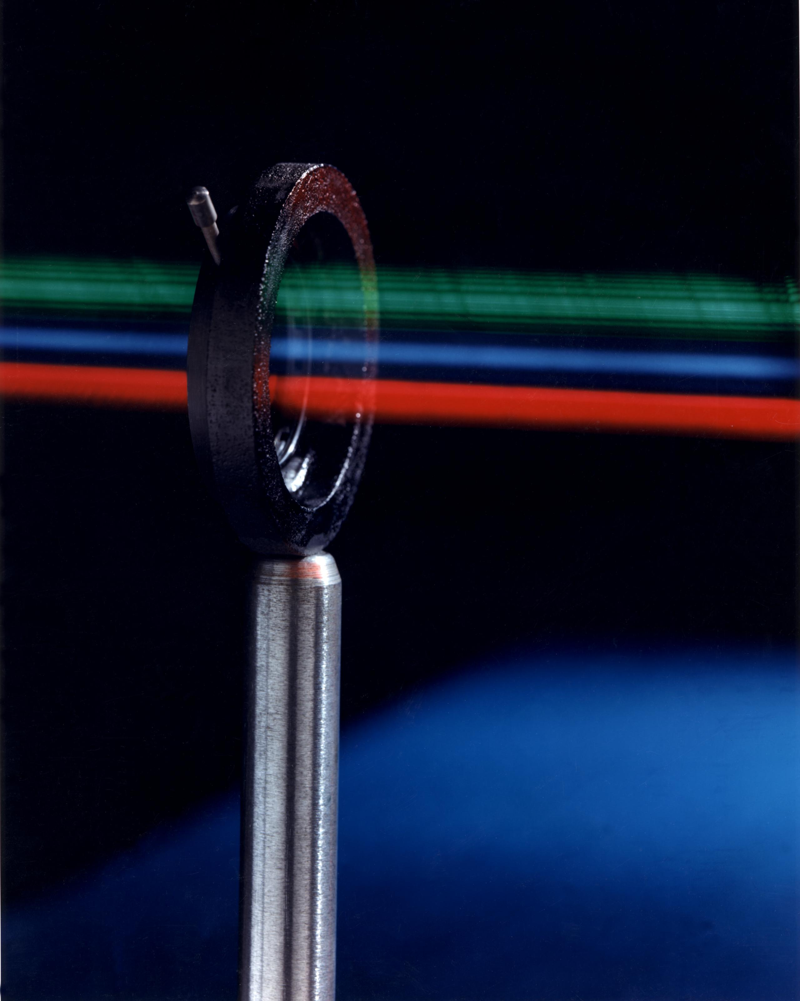 ARGONNE'S ULTRA-SENSITIVE TECHNIQUE FOR DETECTING TRACE AMOUNTS OF IMPURITIES ON MATERIAL SURFACES. ARGONNE SCIENTISTS HAVE DEVELOPED THE TECHNIQUE KNOWN AS SARISA (SURFACE ANALYSIS BY RESONANCE IONIZATION) IN ORDER TO DETECT TRACE AMOUNTS OF IMPURITIES ON MATERIAL SURFACES. THIS CAPABILITY IS IMPORTANT, PARTICULARLY IN THE MANUFACTURE OF SUPER-MINIATURE SEMICONDUCTORS. THIS METHOD OF MULTI-STEP EXCITATION AVOIDS THE IONIZATION OF BACKGROUND ATOMS, WHICH INTERFERES WITH IMPURITY DETECTION. For more information or additional images, please contact 202-586-5251.